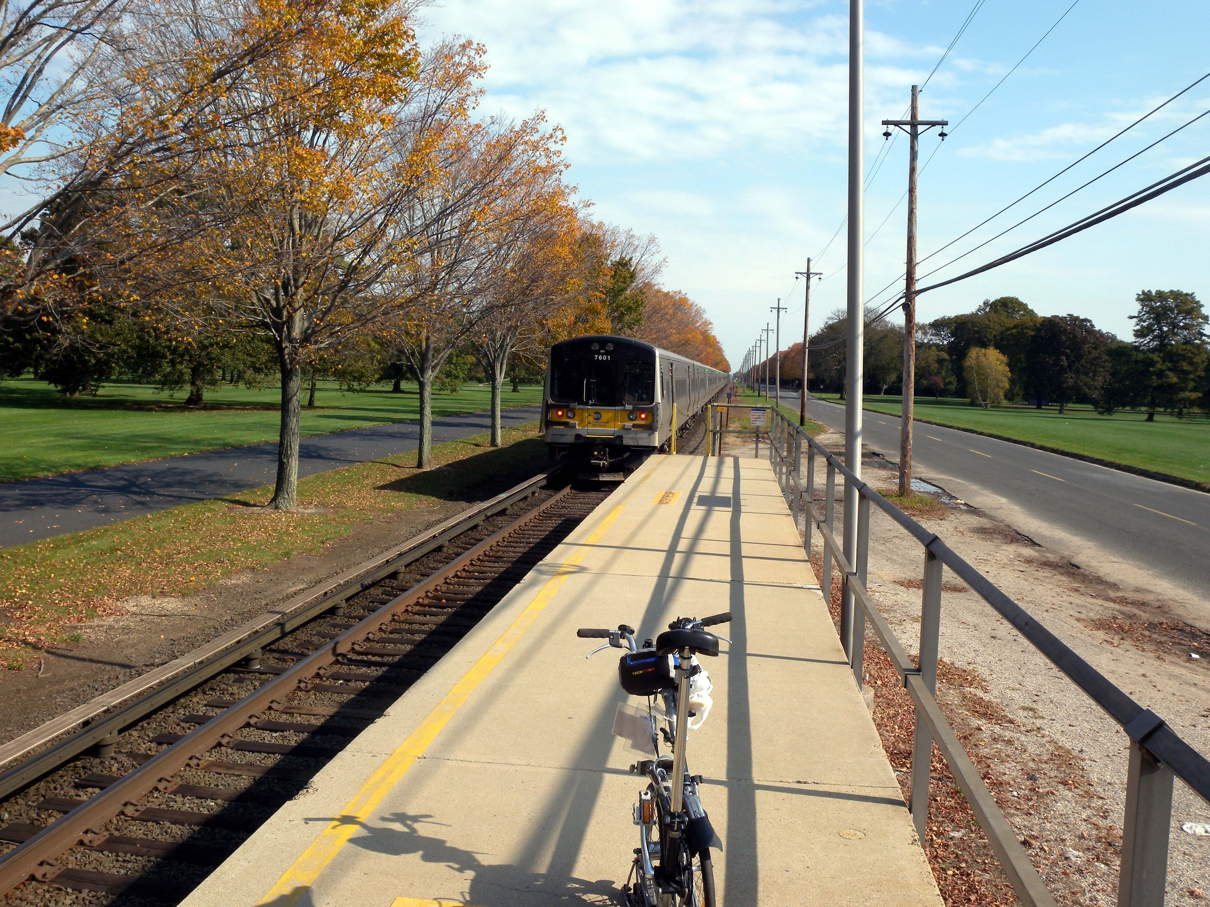 Looking east on platform at train departing from Pinelawn (LIRR station) on a sunny midday.